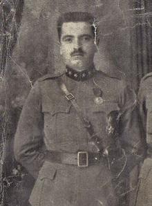 Colonel Fiqre Dine